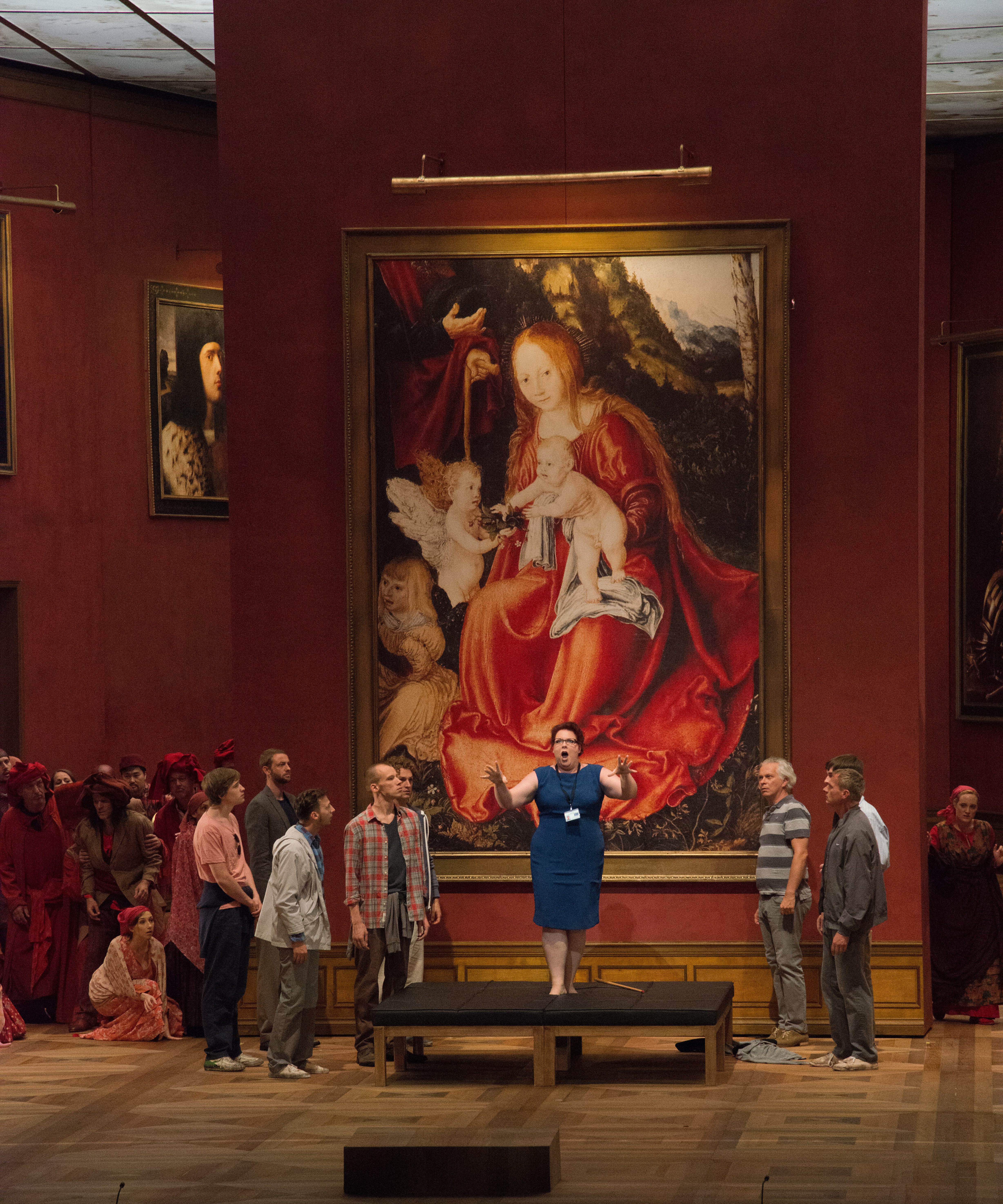 Il trovatore, with Marie-Nicole Lemieux, Salzburg Festival 2014